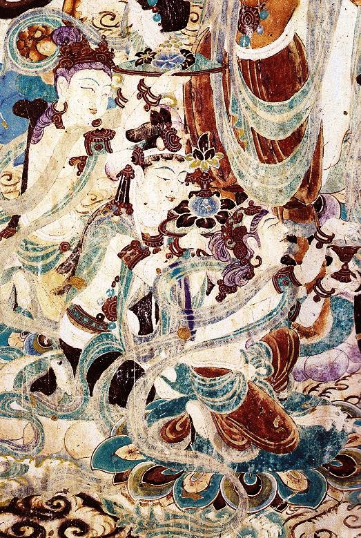 Figures from Mogao cave 158, Middle Tang (also known as Tibetan/Tangut period).